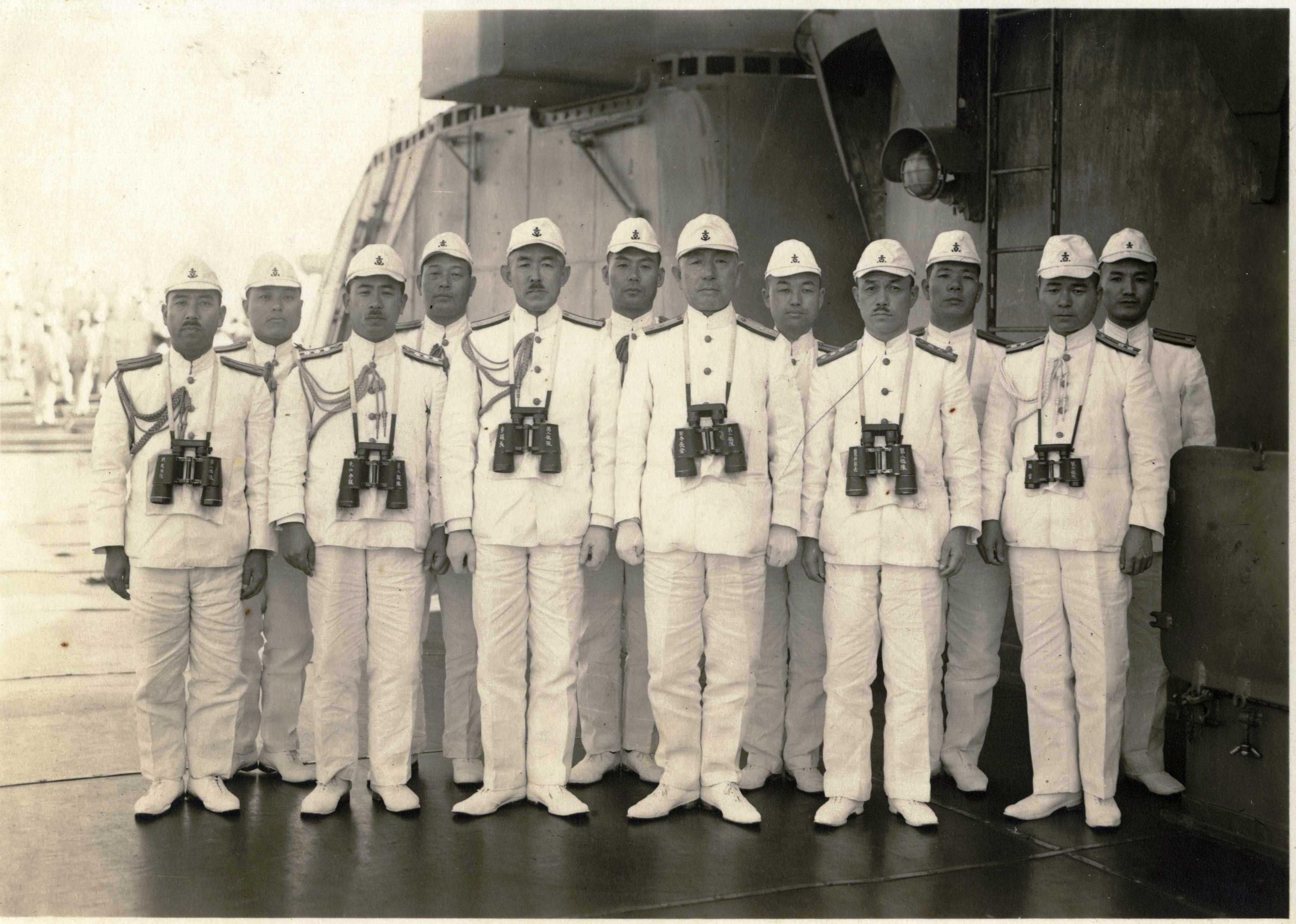 Admiral Kōga Mineichi (first row, 3rd from right) with the Staff of the Combined Fleet, probably on board of Musashi